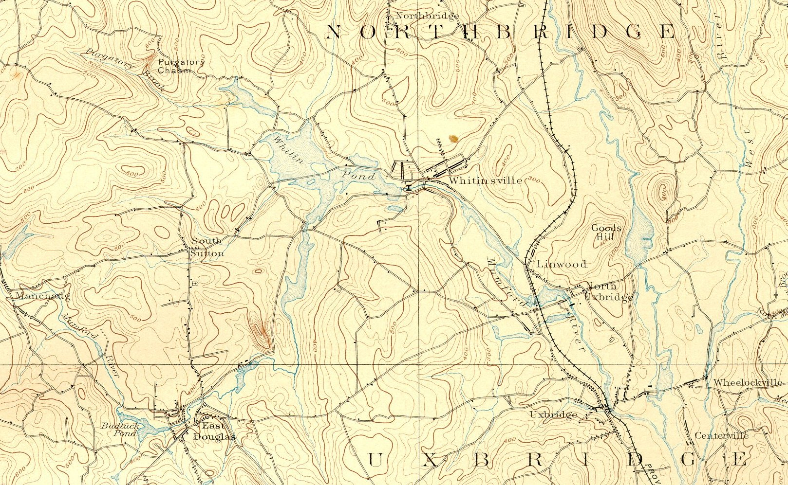 Map of the lower sections of Mumford River (Massachusetts).